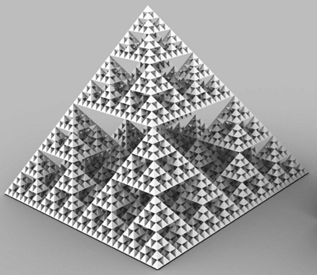 Built by iterating 5 similarities of ratio 1/2, from a square-based pyramid. Must not be confused with the Sierpinski tetrahedron.